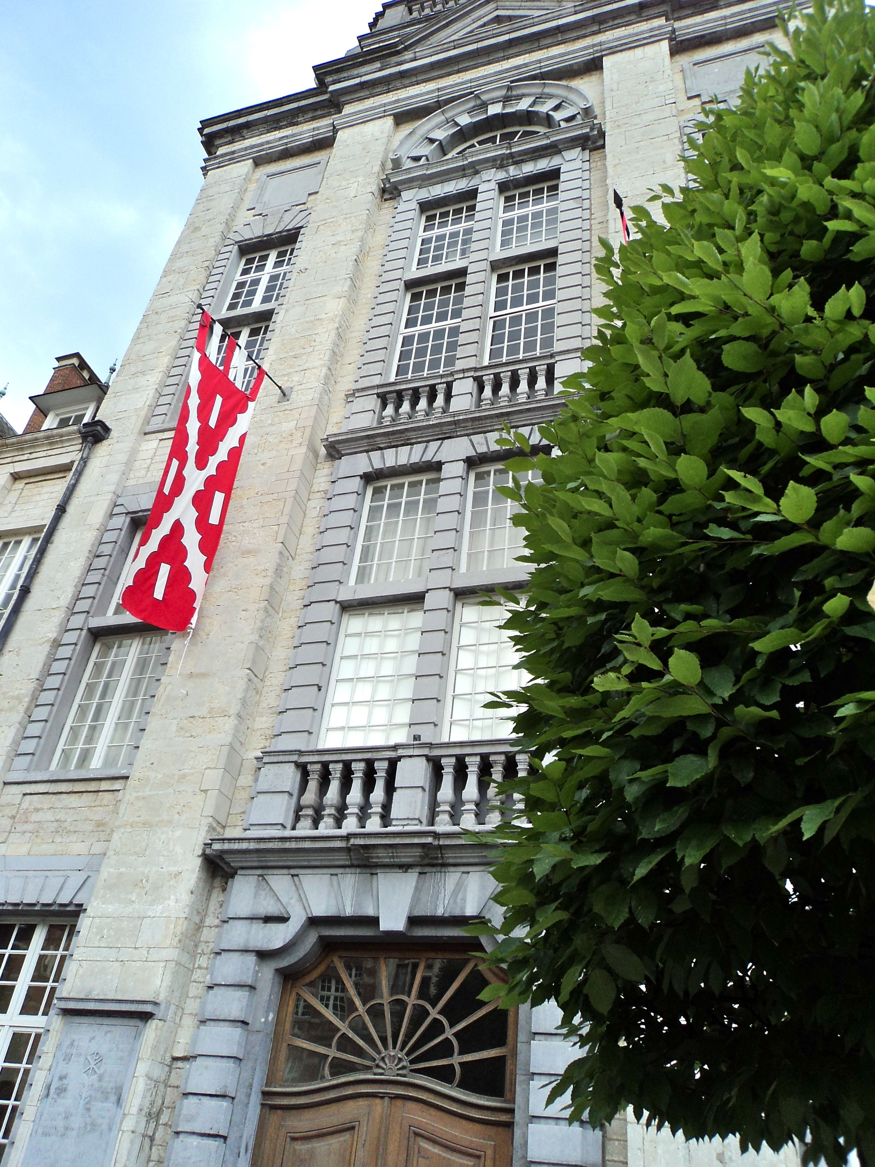 University Hall Katholieke Universiteit Leuven, Belgium - entrance via Old Market Place